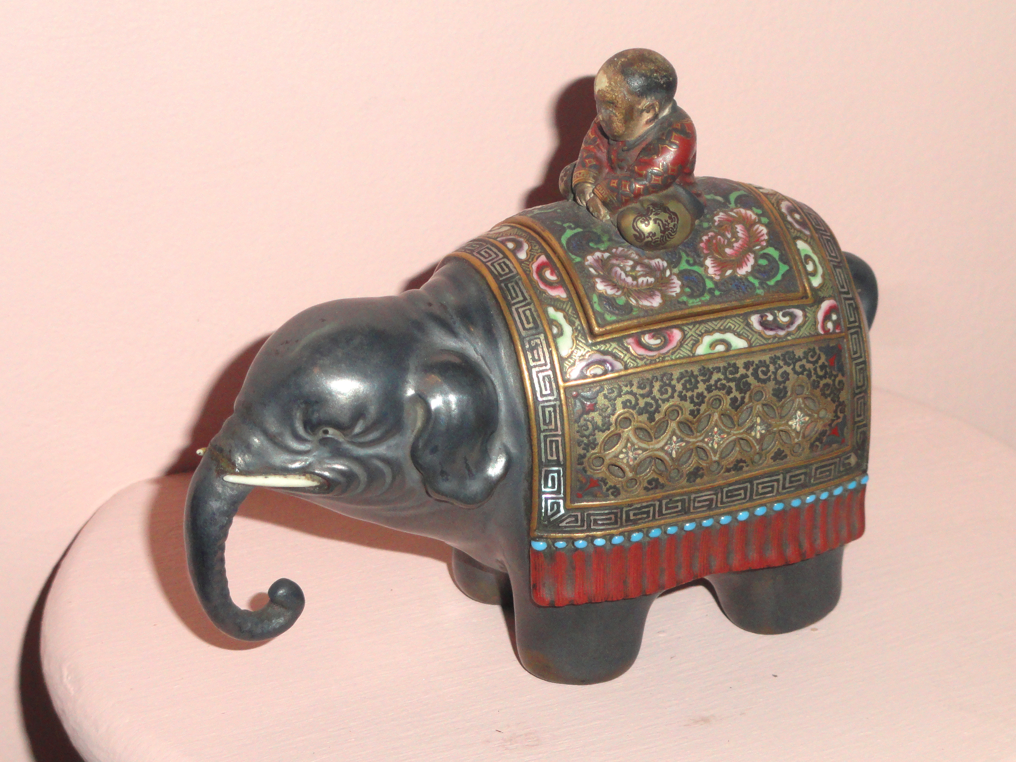 Exhibit in the George Walter Vincent Smith Art Museum, 21 Edwards Street, Springfield, Massachusetts, USA. This item is old enough so that it is in the public domain. The museum permitted photography without restriction.